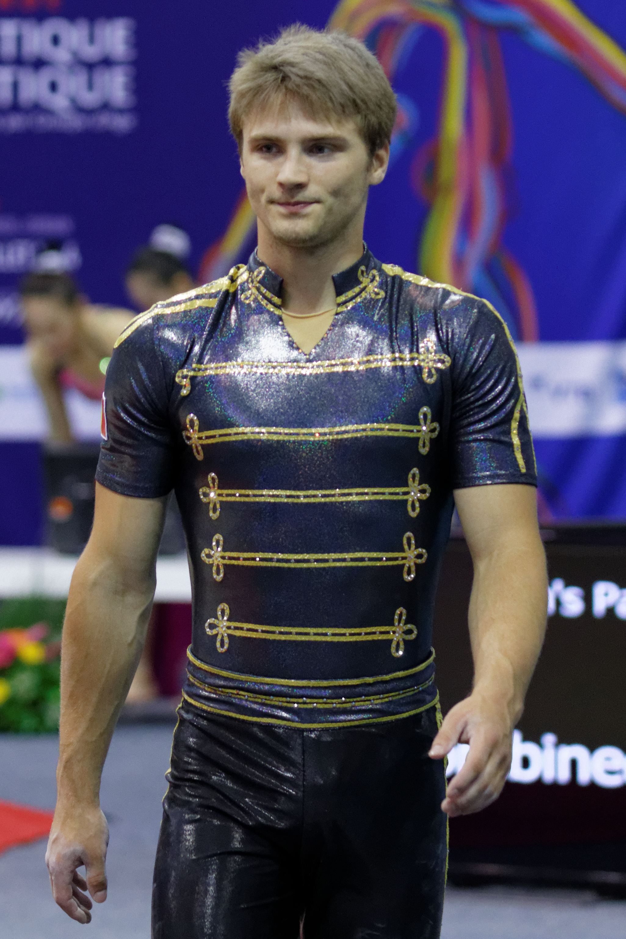 2014 Acrobatic Gymnastics World Championships, 10th-12 July, Levallois-Perret, France. Qualifications: men's pair. Belgium.